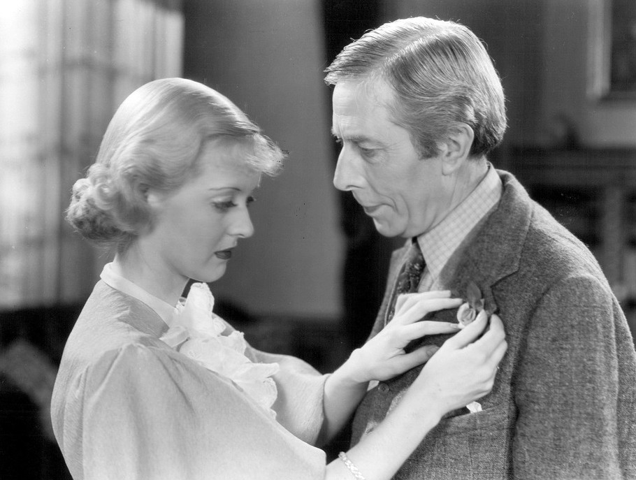 Bette Davis and George Arliss in a scene from the 1933 film The Working Man.